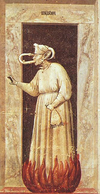 Life of Christ